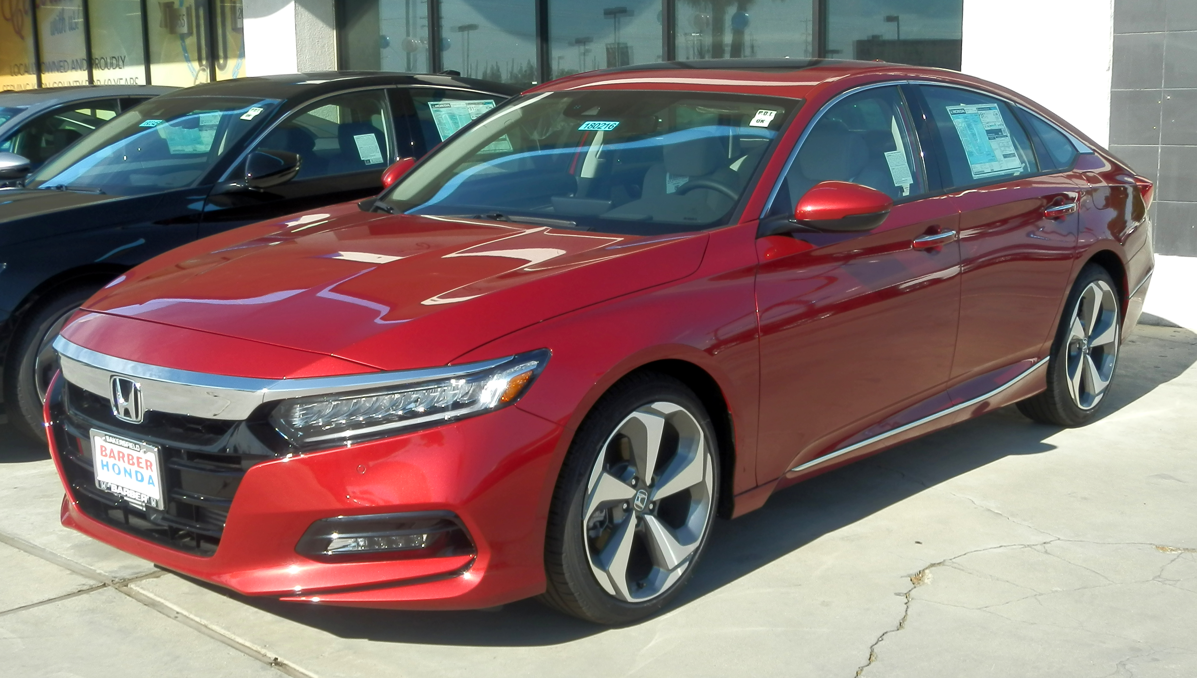 Honda Accord X in Bakersfield